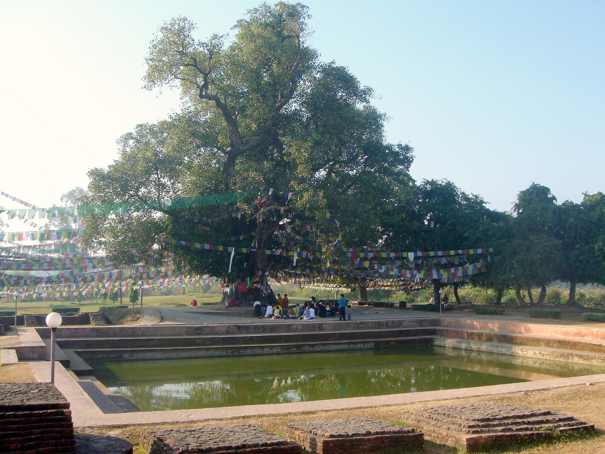 Bodhitree and the pond Mayadevi (Buddha's mother) took a bath before giving birth to the future Buddha.